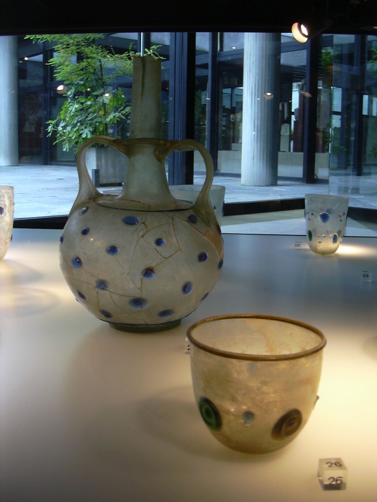 Late Roman Glass, Cologne